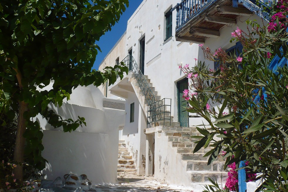 Apartments at the Castle district of Antiparos island in Greece.